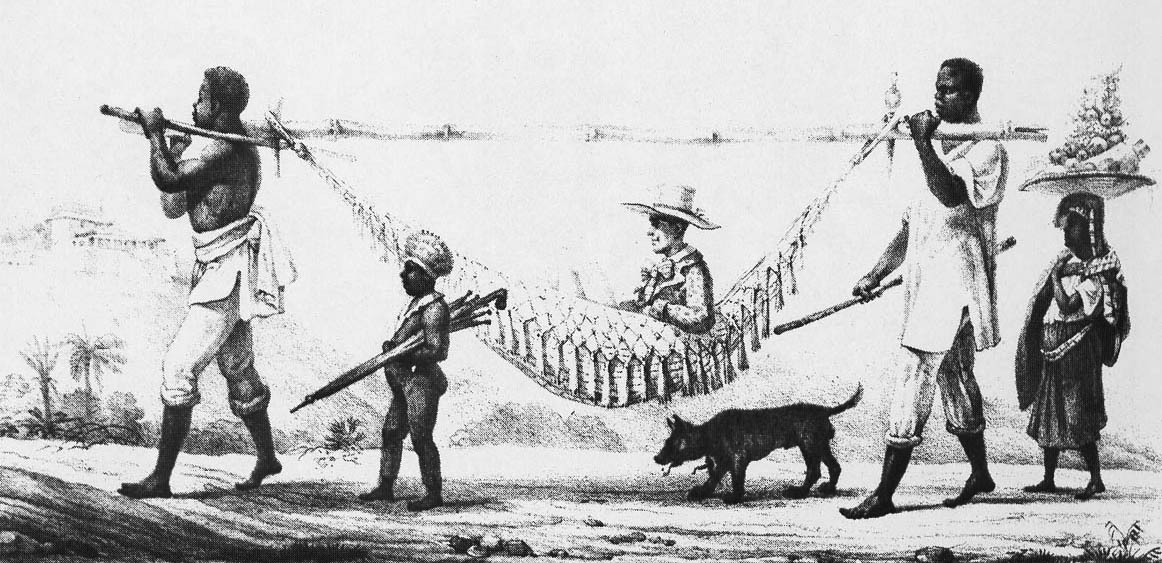 The slaveowner being carried by slaves (19th century).